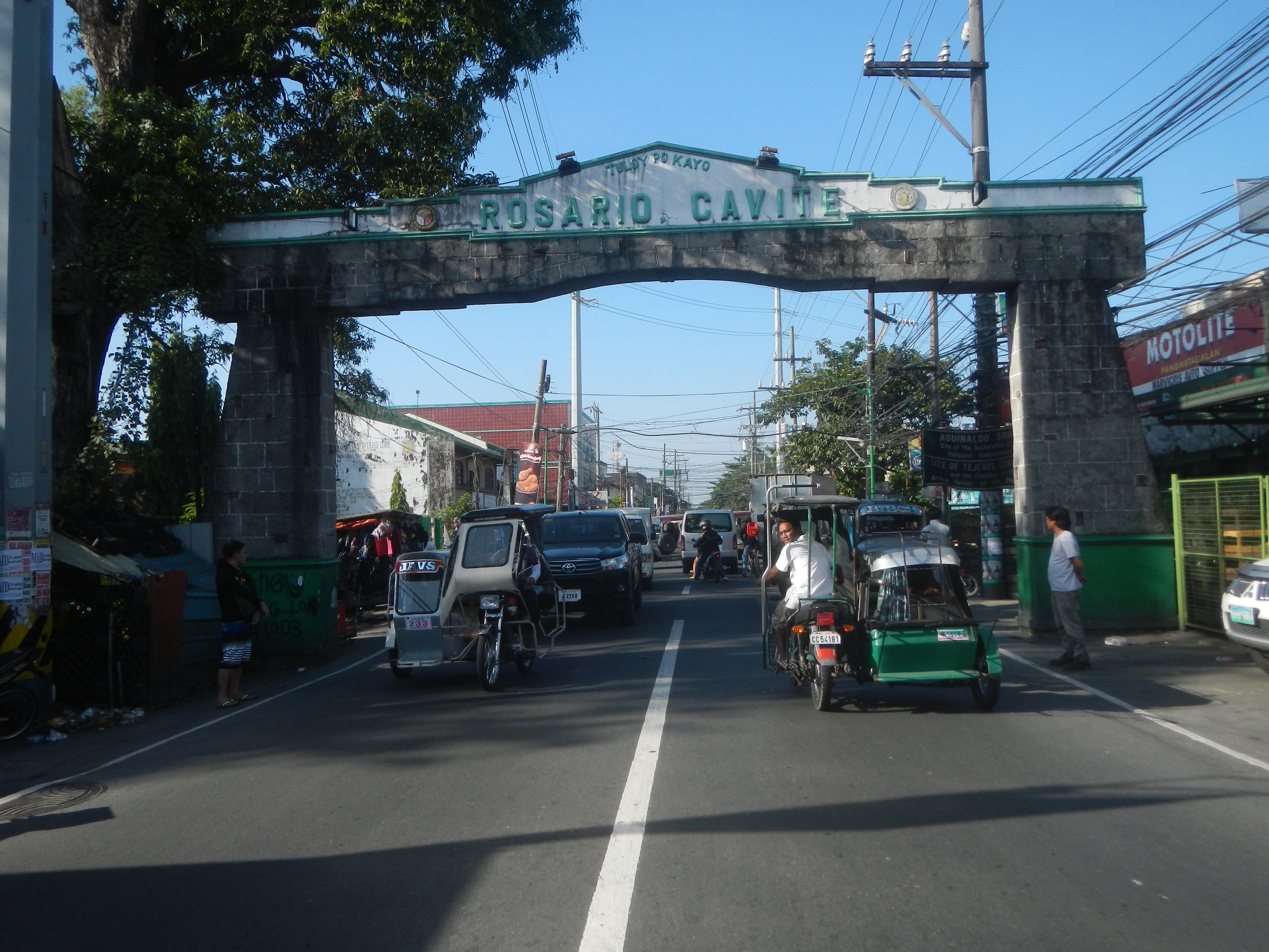 Tejeros Convention Welcome arch of Rosario (Tejeros Convention, General Trias Drive) & General Trias (Tejero, Cavite) Casa Hacienda (Tejeros Convention, Rosario, Cavite) General Trias Drive (General Trias, Cavite) Intersection of General Trias Drive and Antero Soriano Highway (General Trias, Cavite) Antero Soriano Highway corner N401 highway (Philippines) General Trias Drive Barangay Tejero 14°23'48"N 120°51'53"E General Trias, Cavite bounded by Barangay Tejeros Convention 14°24'32"N 120°51'30"E Rosario, Cavite along Noveleta–Rosario Diversion Road corner General Trias Drive (Rosario, Cavite) Philippine highway network (Note: Judge Florentino Floro, the owner, to repeat, Donor Florentino Floro of all these photos hereby donate gratuitously, freely and unconditionally Judge Floro all these photos to and for Wikimedia Commons, exclusively, for public use of the public domain, and again without any condition whatsoever).